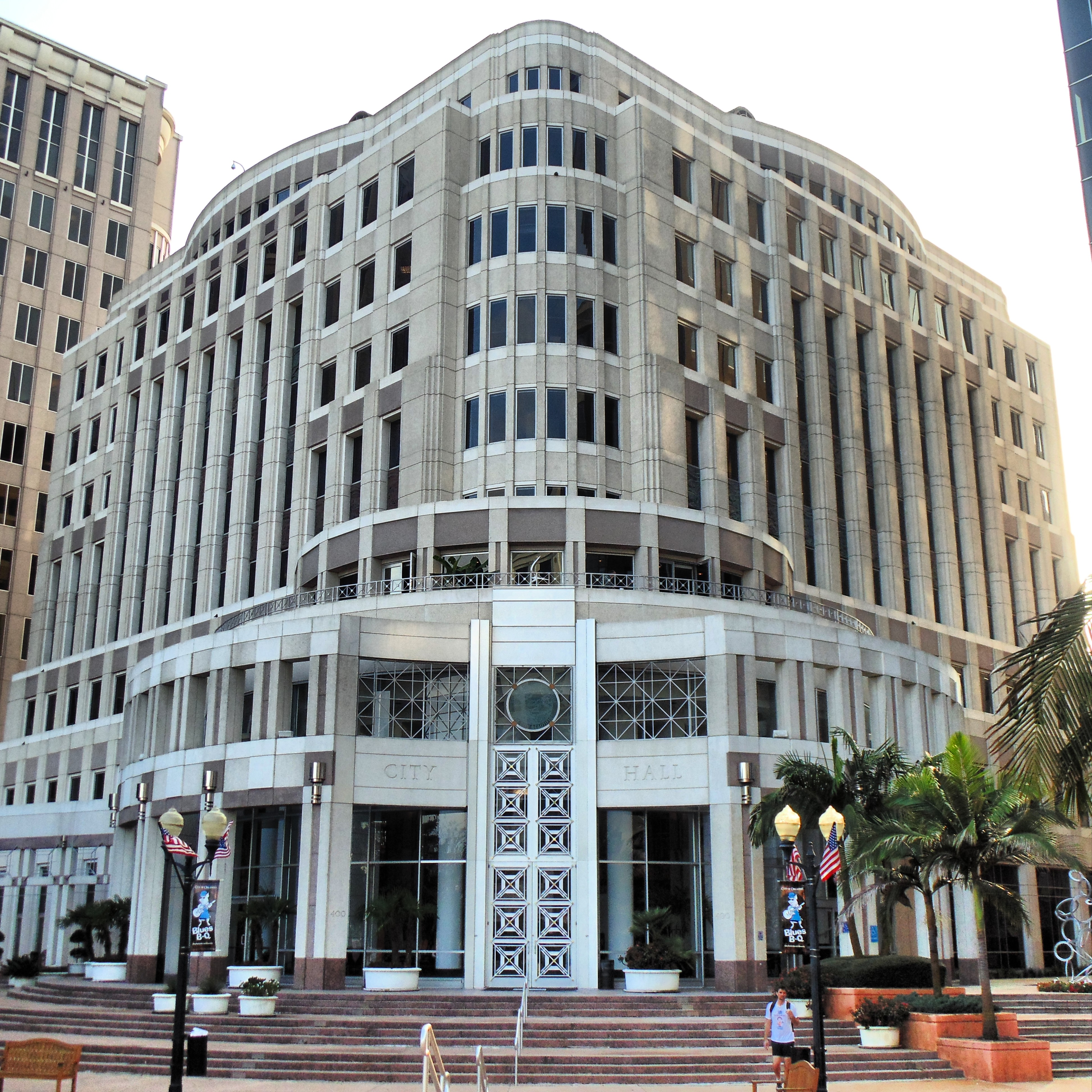 City Hall in Downtown Orlando